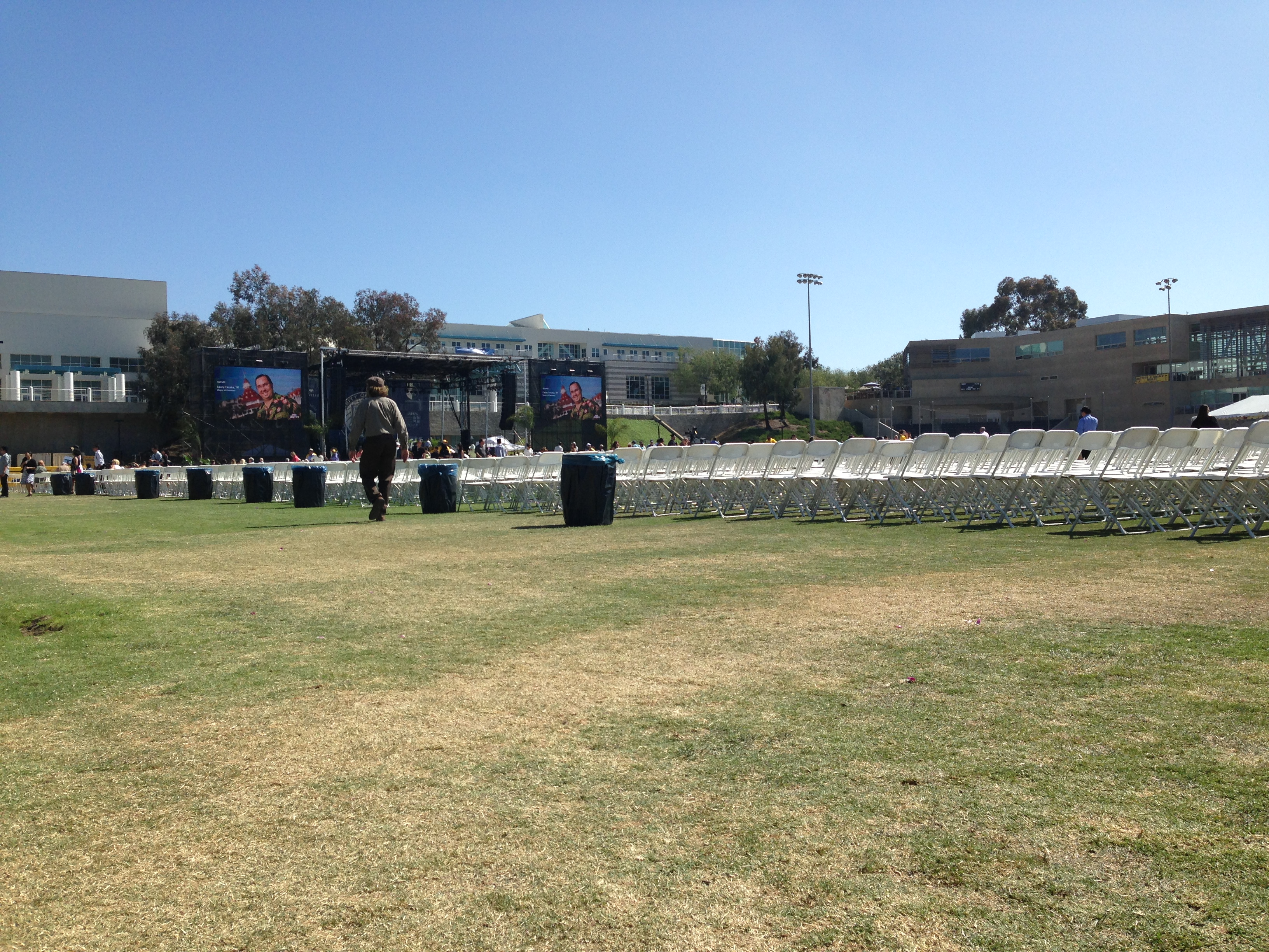 UCSD Graduation at RIMAC arena